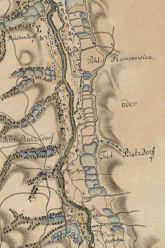 Komorowice, now part of Bielsko-Biała on a map from 1763